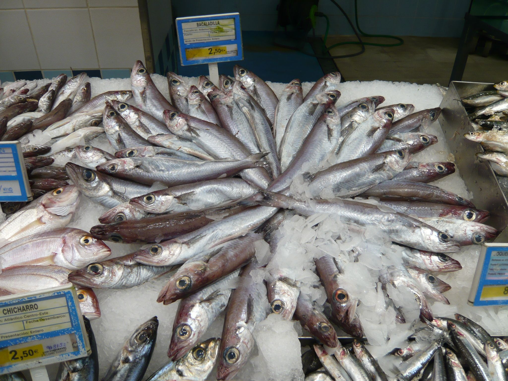 Blue whiting in a super market in Valencia, Spain